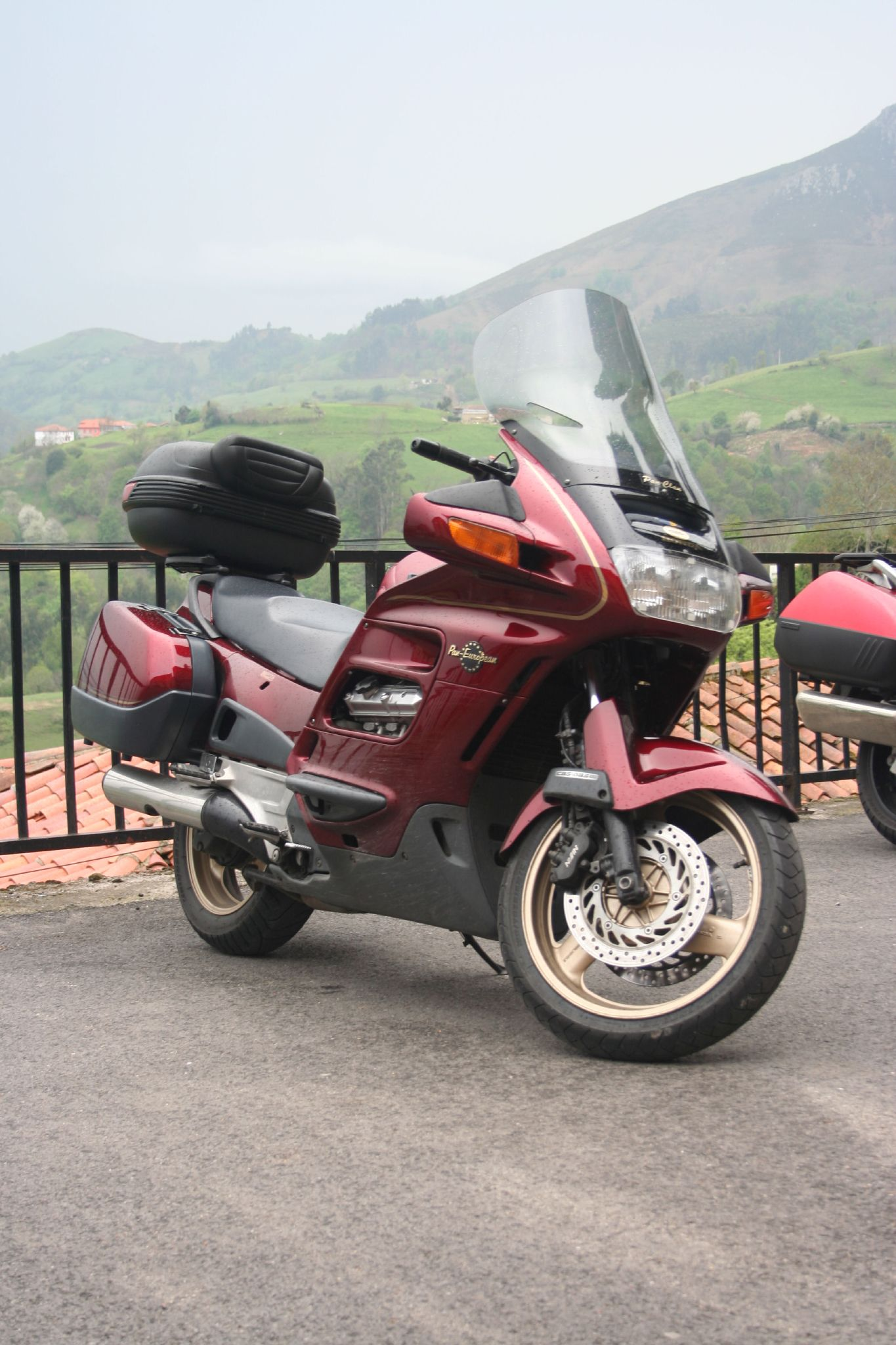 Honda Pan-European